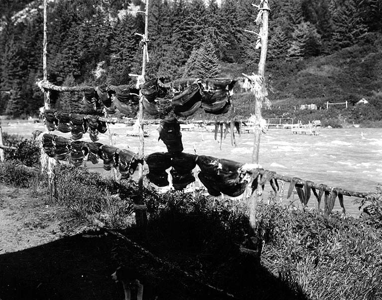 From John Cobb field notebook: Drying salmon, Chilcoot River. Subjects (LCTGM): Fish drying--Alaska--Chilkat River Subjects (LCSH): Salmon industry--Alaska--Chilkat River